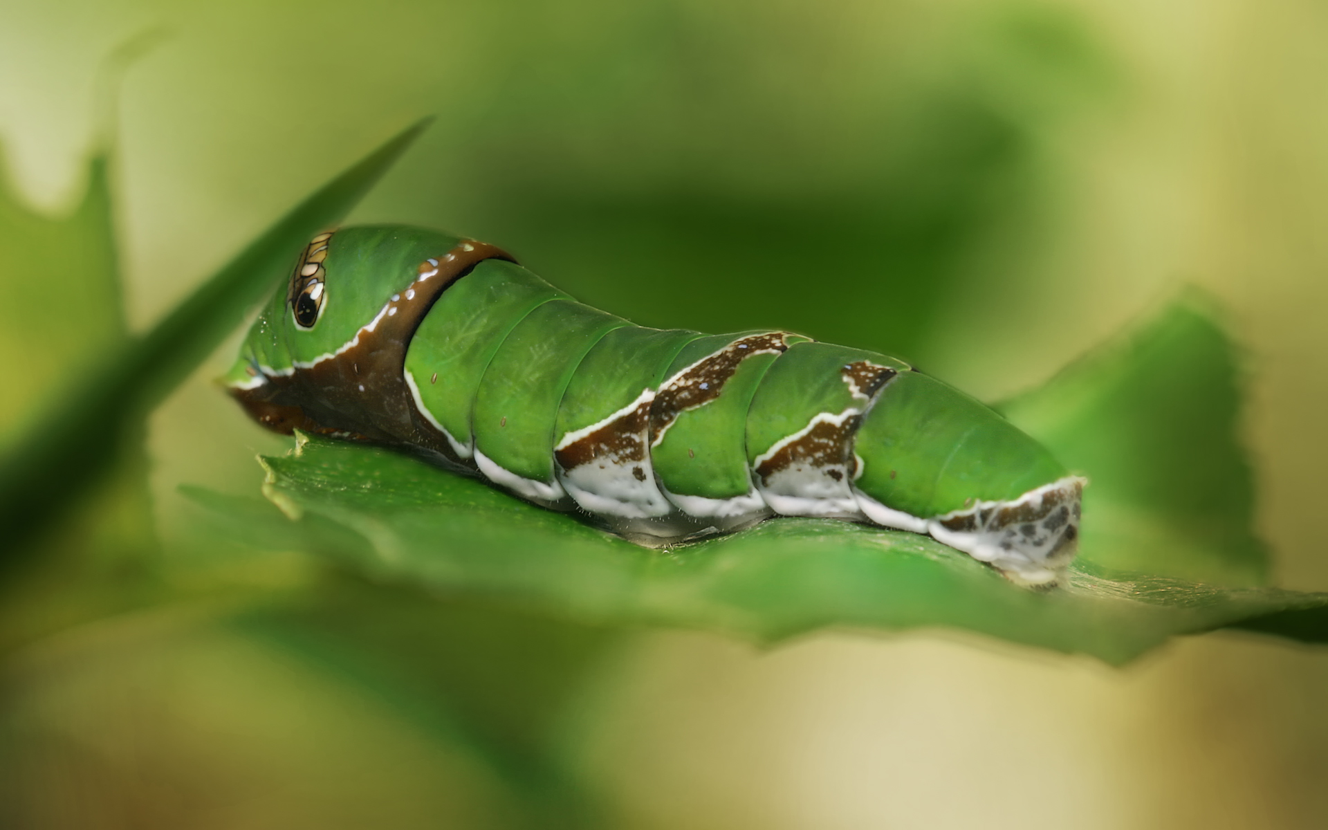 As shown a Caterpillar Phoebis philea Papilio spec.